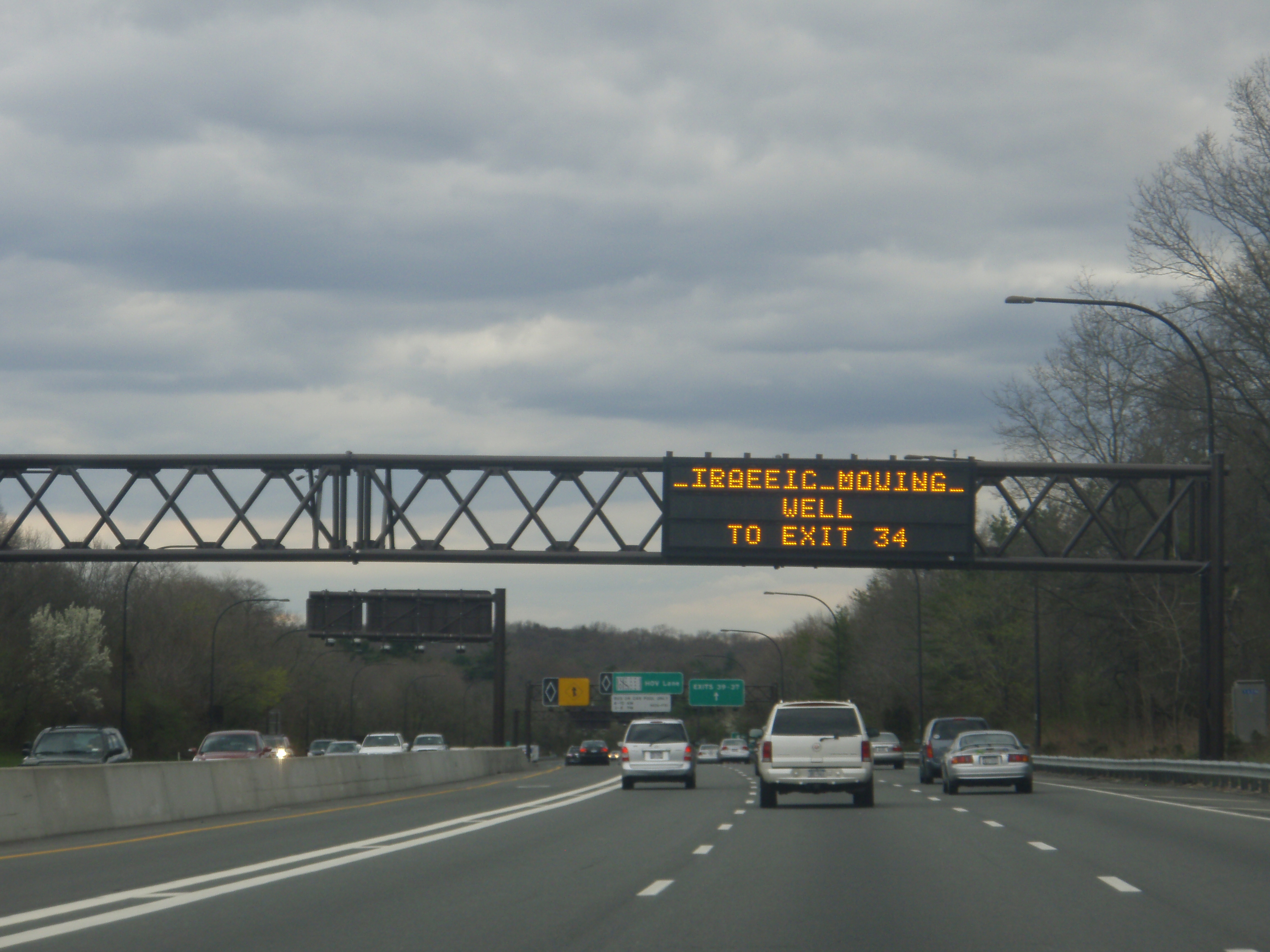 Long Island Expressway (Interstate 495) in Nassau County, New York